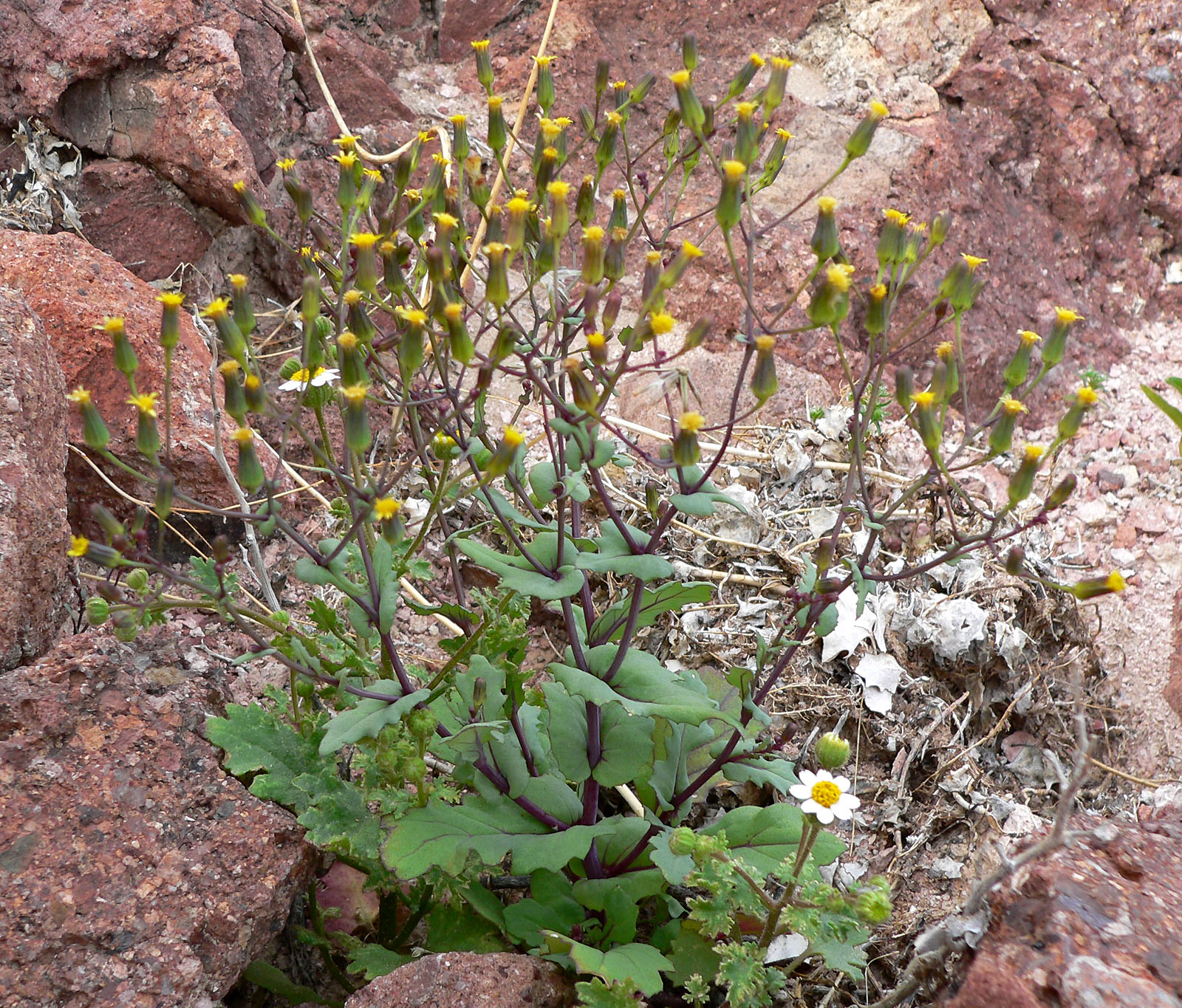 Senecio mohavensis near route 178, two miles east of Jubilee Pass, Death Valley National Park